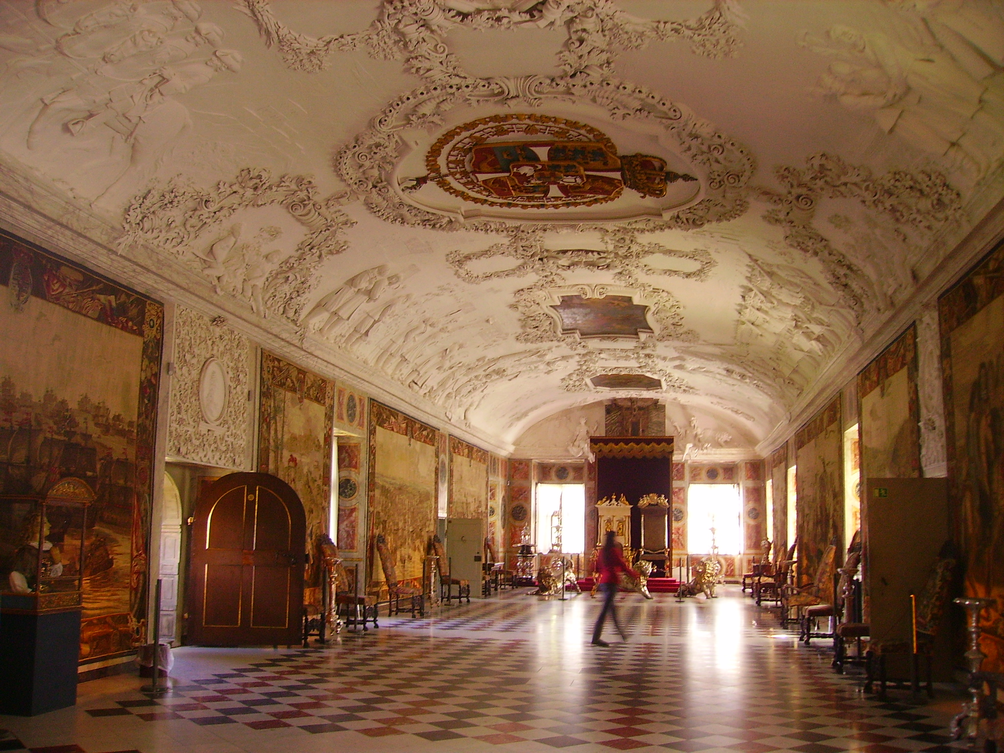 Ceremonial hall of Rosenborg Palace, Copenhagen